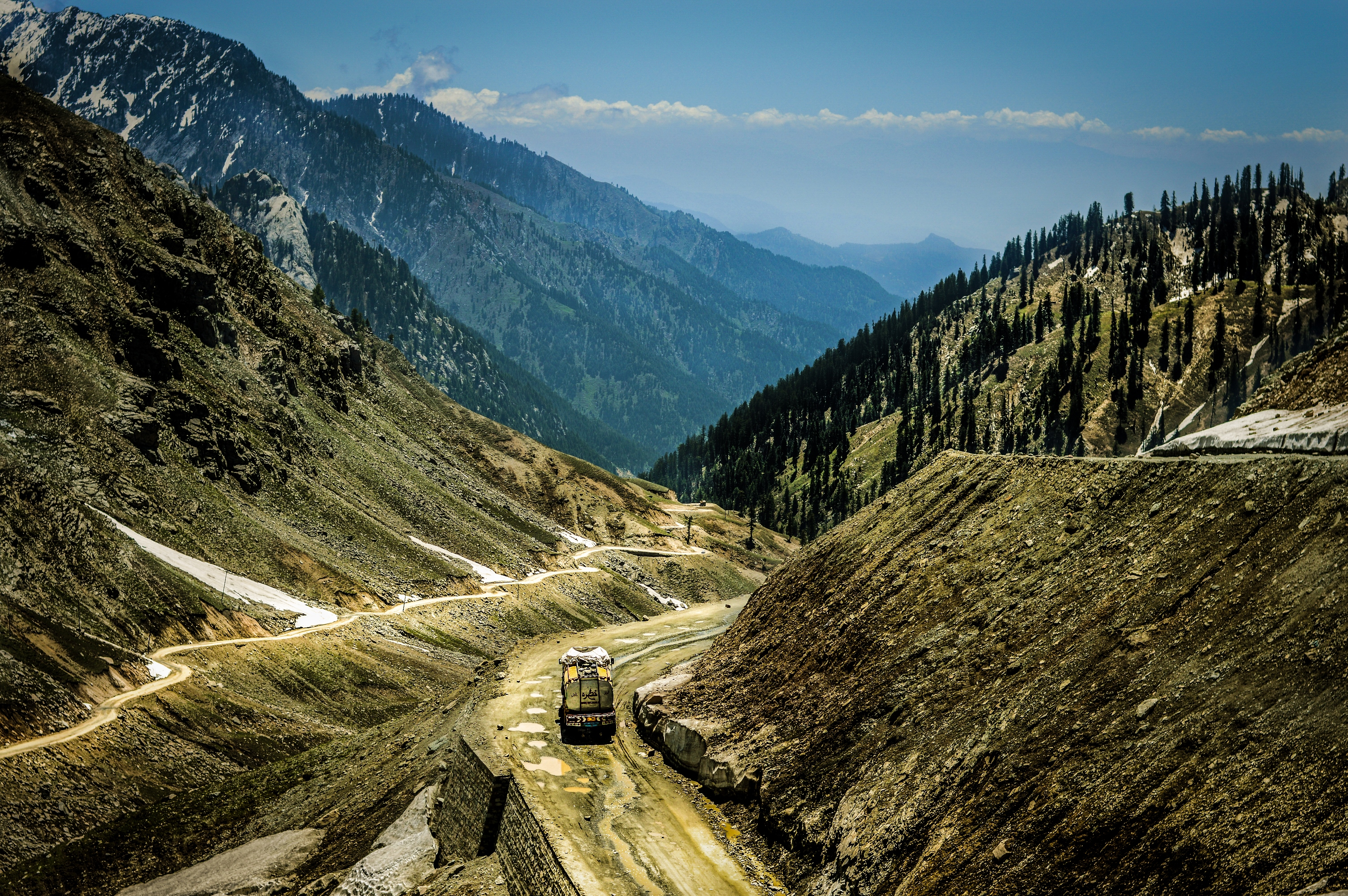 A view from the great lowari pass in chitral District